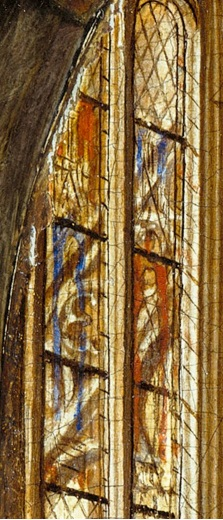 Madonna in the Church